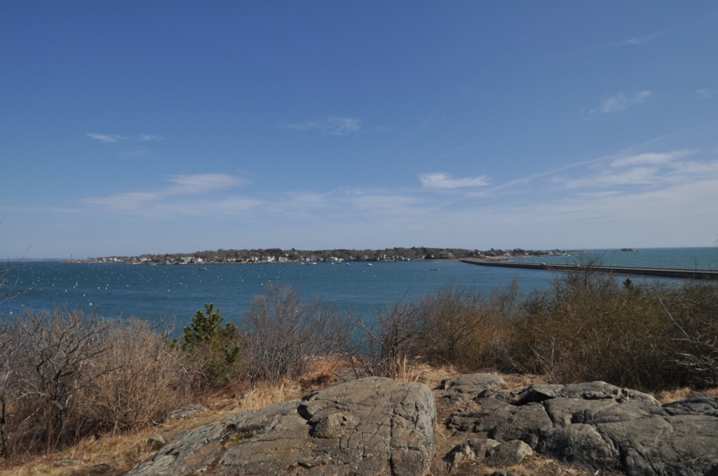 View of Marblehead Neck and the connecting causeway from Seaside Park in Marblehead, Massachusetts.